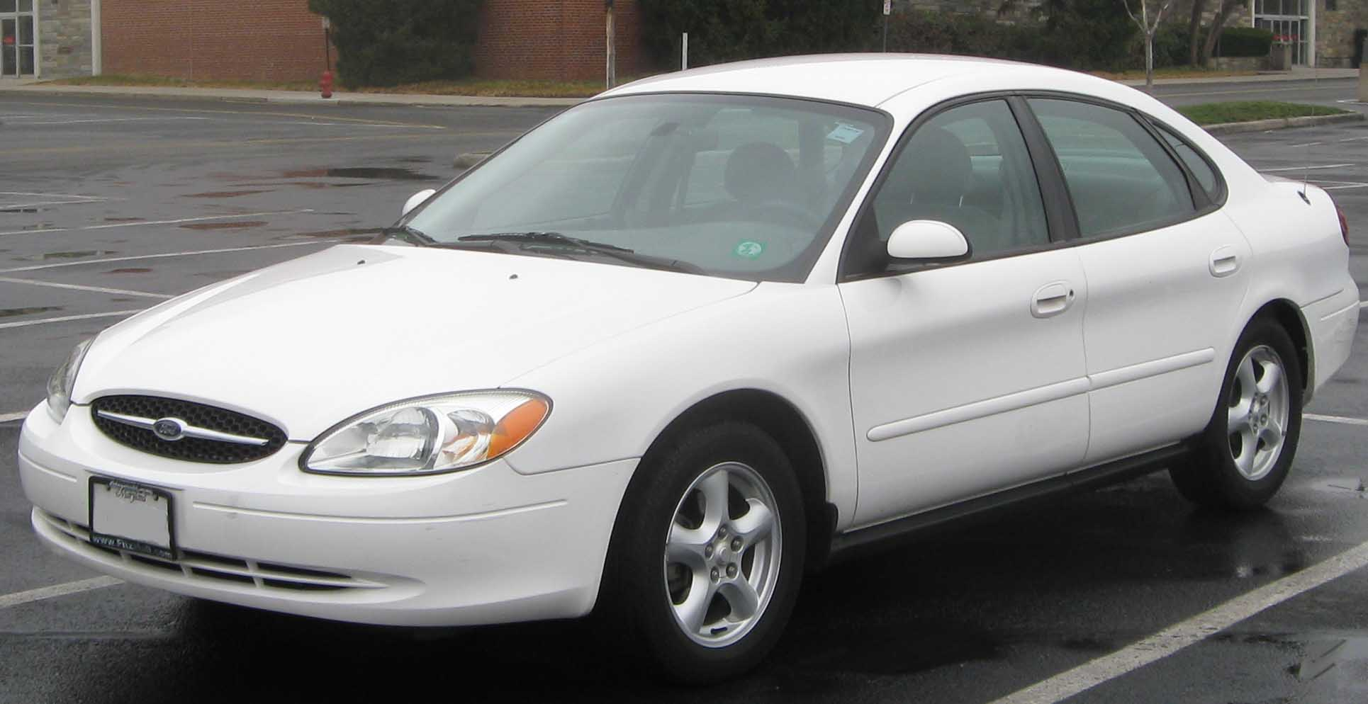 2000-2003 Ford Taurus photographed in Wheaton, Maryland, USA.